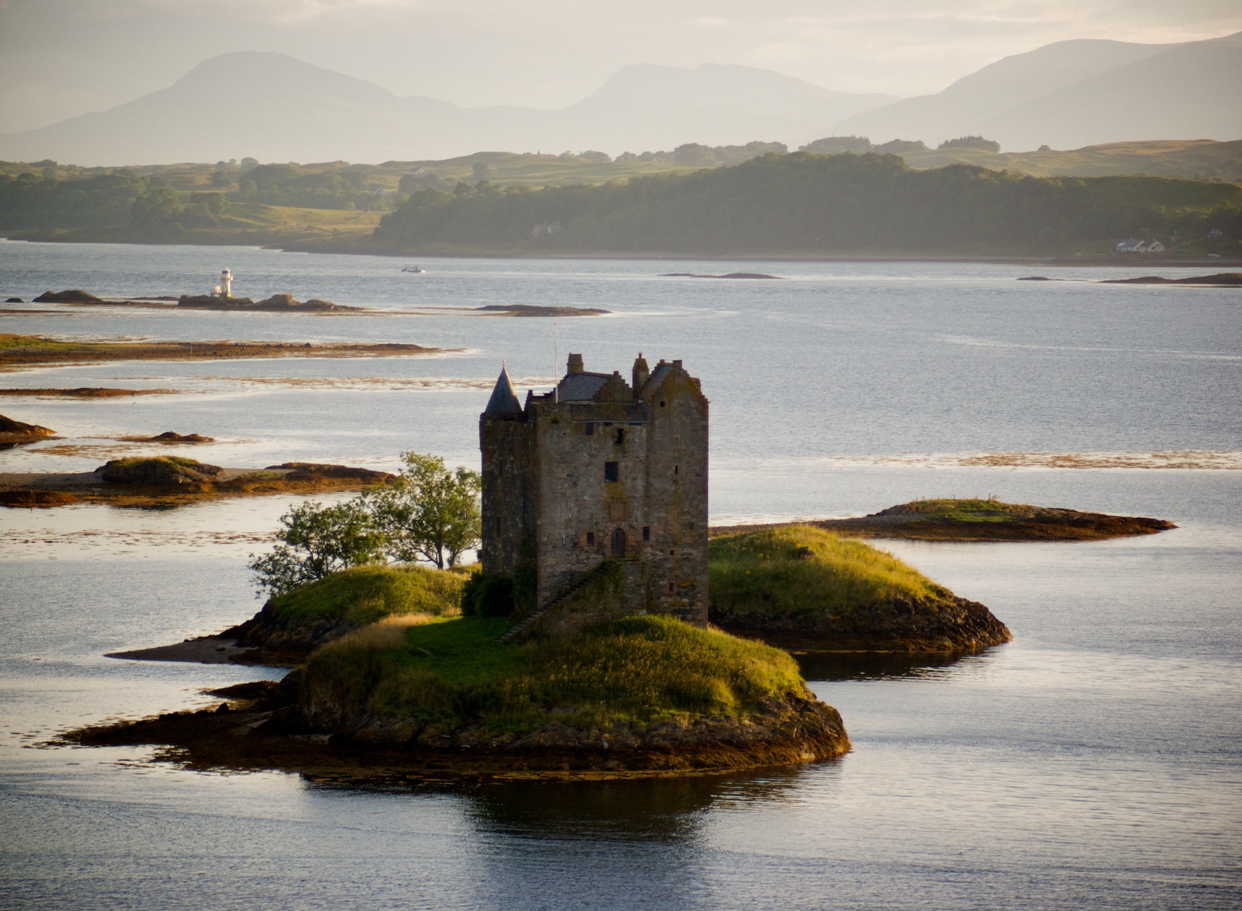 Castle Stalker, Apin, Scotland.